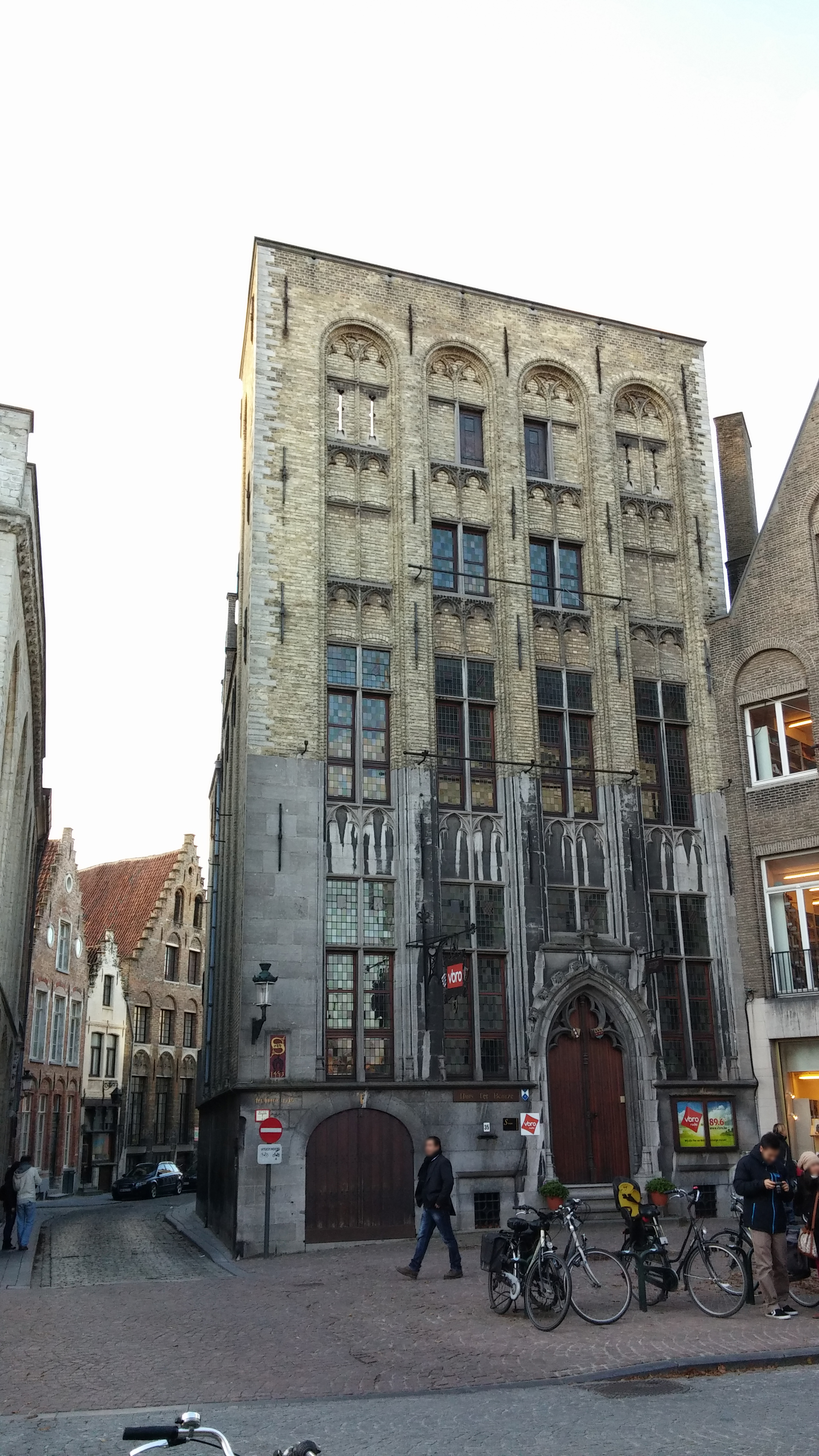 Ter Buerze building, build in 1423 by Jacob van der Buerse